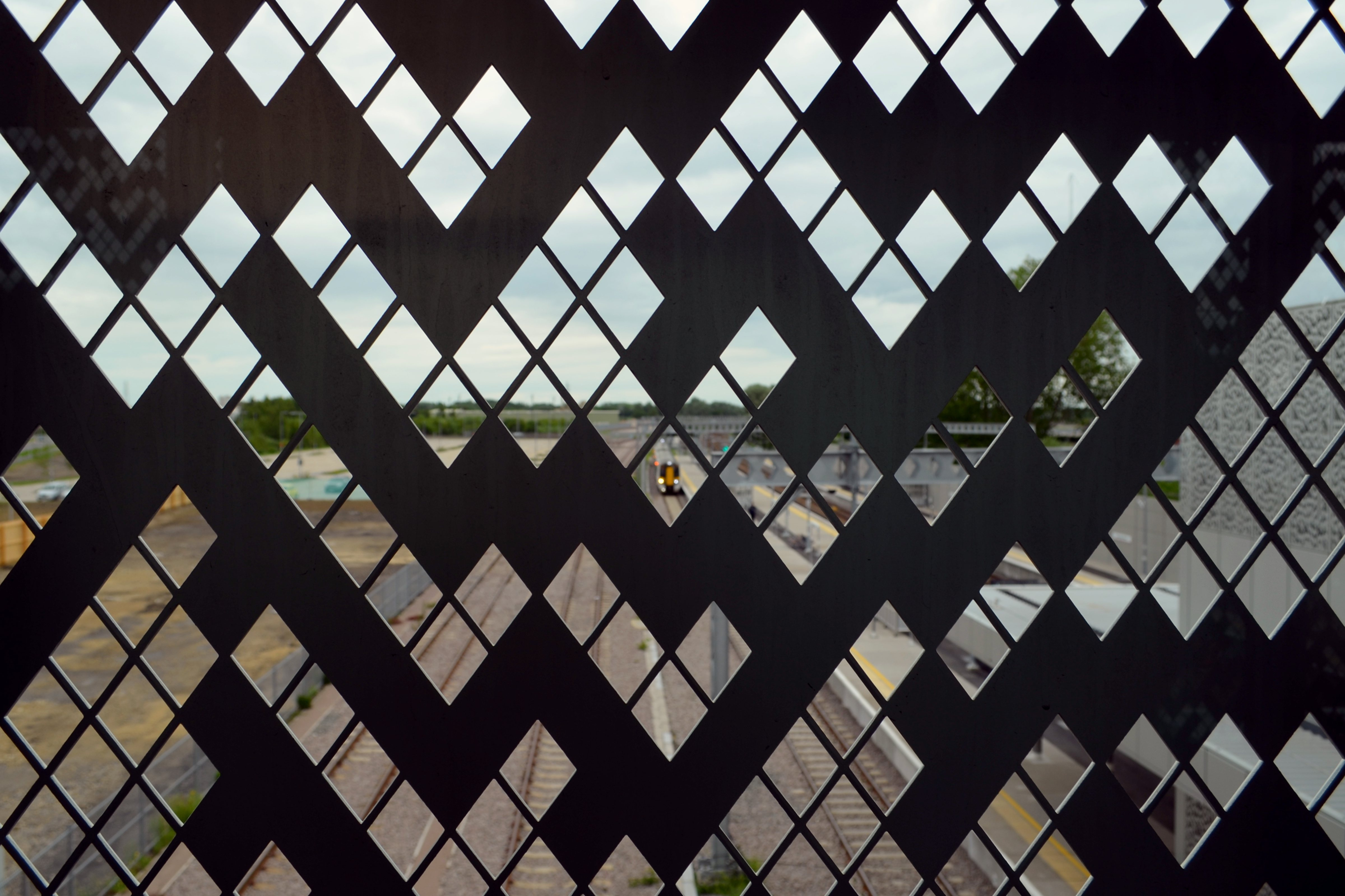 Detail of the Cambridge North railway station cladding viewed from the footbridge in May 2017.